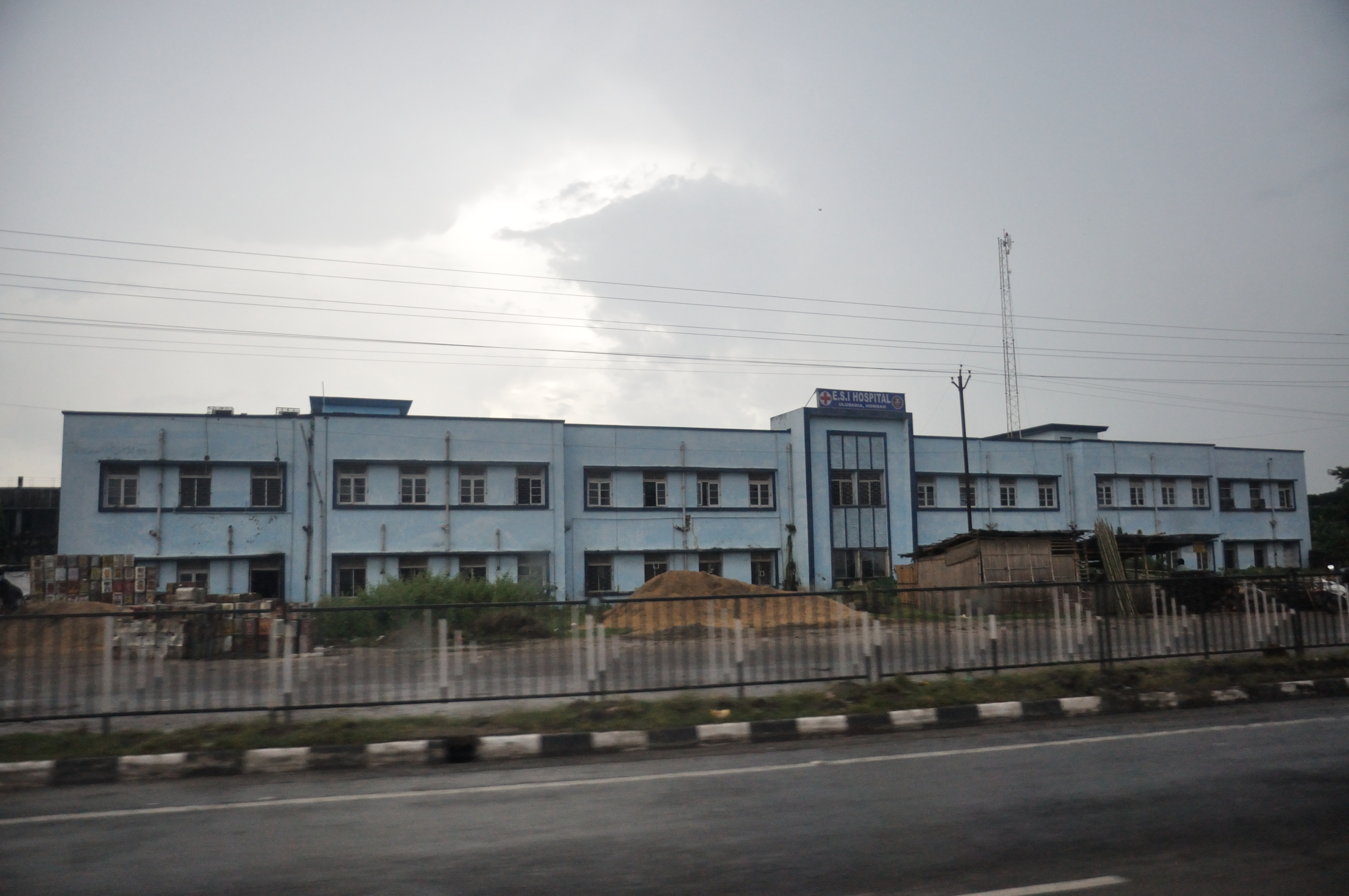 Photographed in West Bengal.